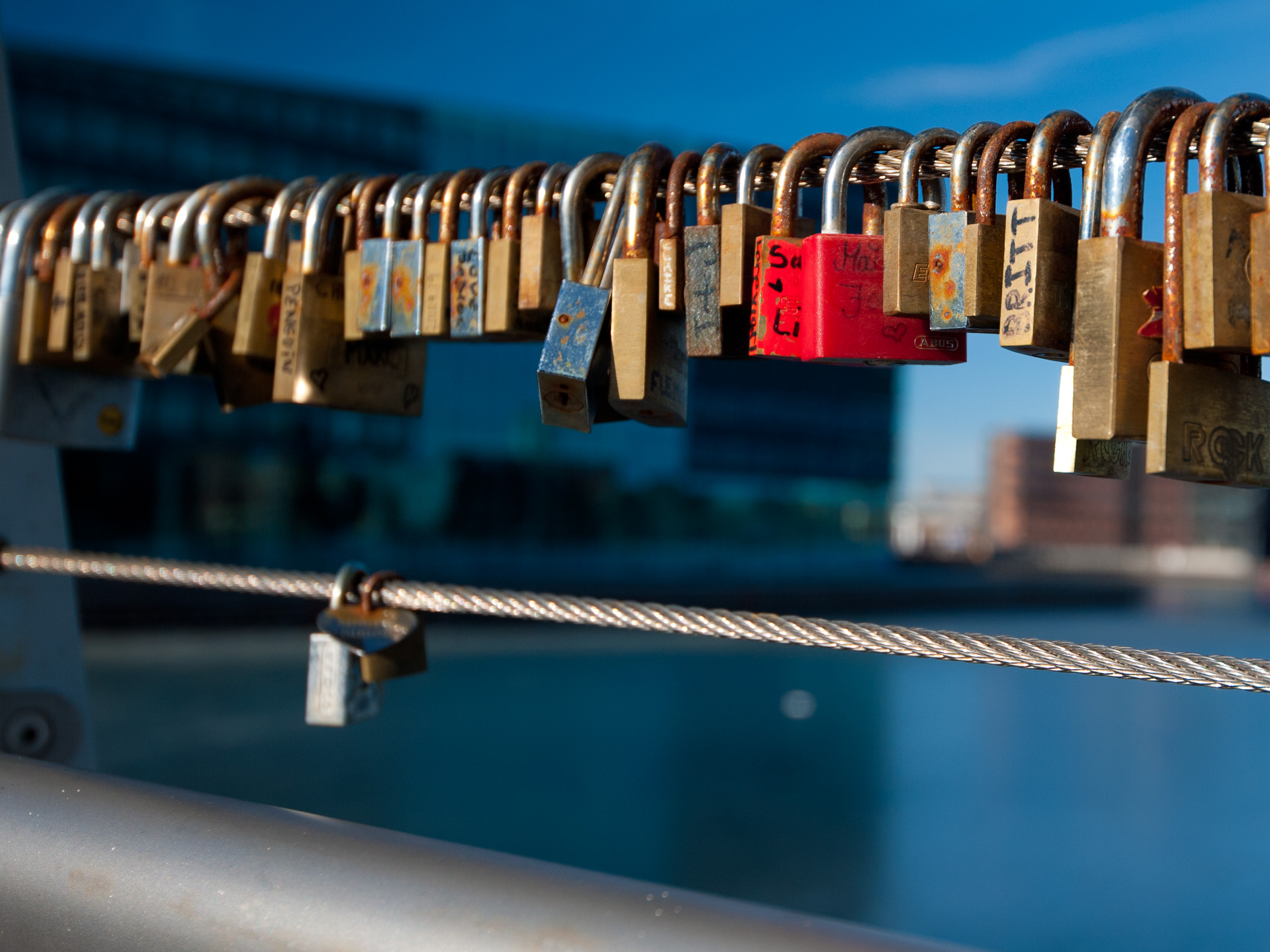 Love locks or "love padlocks" on the Bryggebroen in Copenhagen Harbor, Denmark.